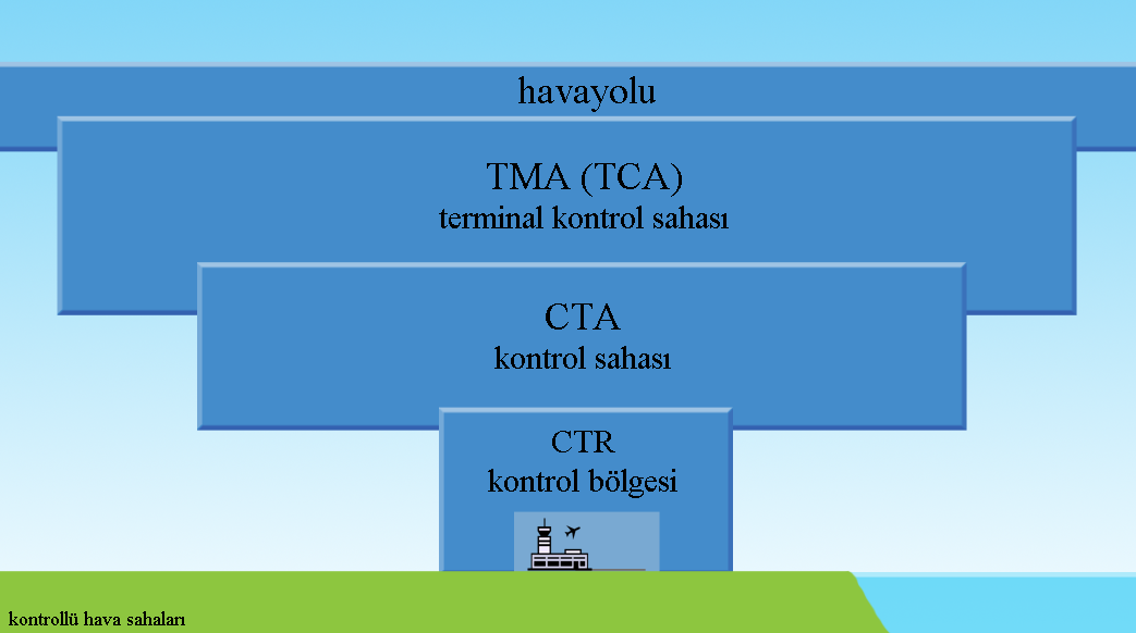 Controlled airspace TMA (TCA), CTA, CTR and airways